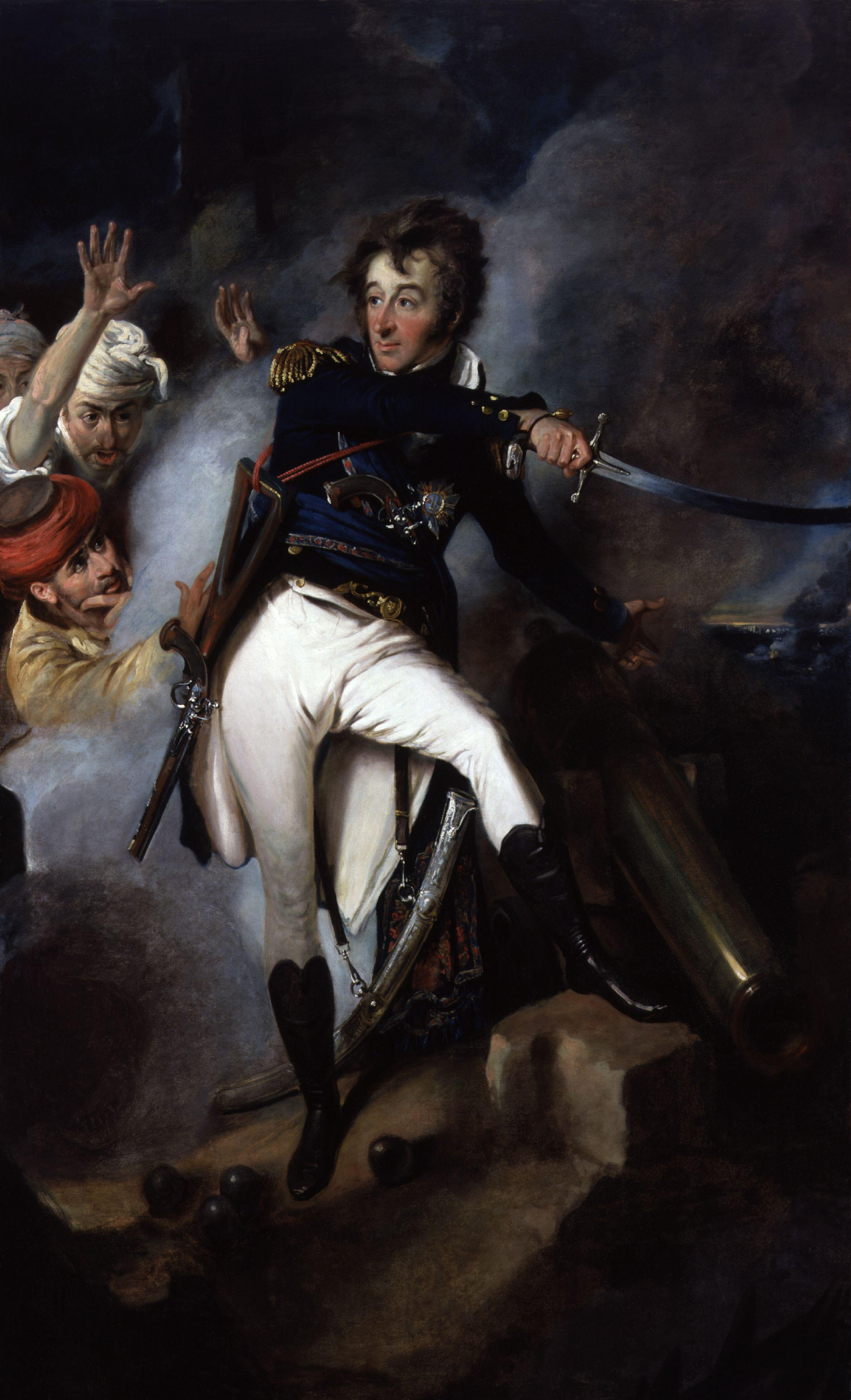 Sir William Sidney Smith, by John Eckstein. All images in this batch have a known author, but have manually examined for strong evidence that the author was dead before 1939, such as approximate death dates, birth dates, floruit dates, and publication dates.